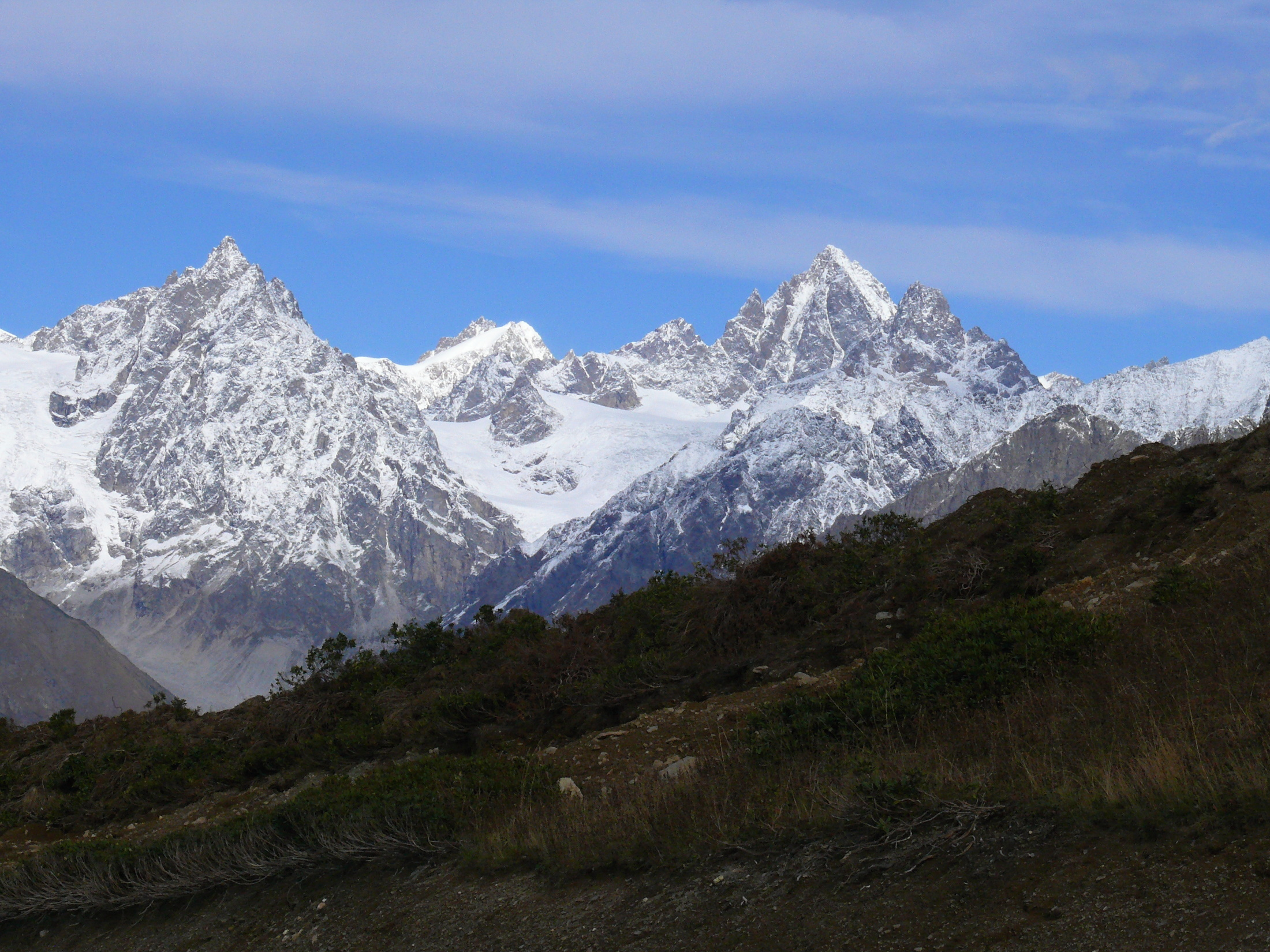 Peaks Tomtau (left, 3954 m), Bashiltau (right, 4248 m). Southern view from the western slope of Tetnuldi.